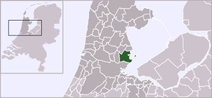 Location of Waterland